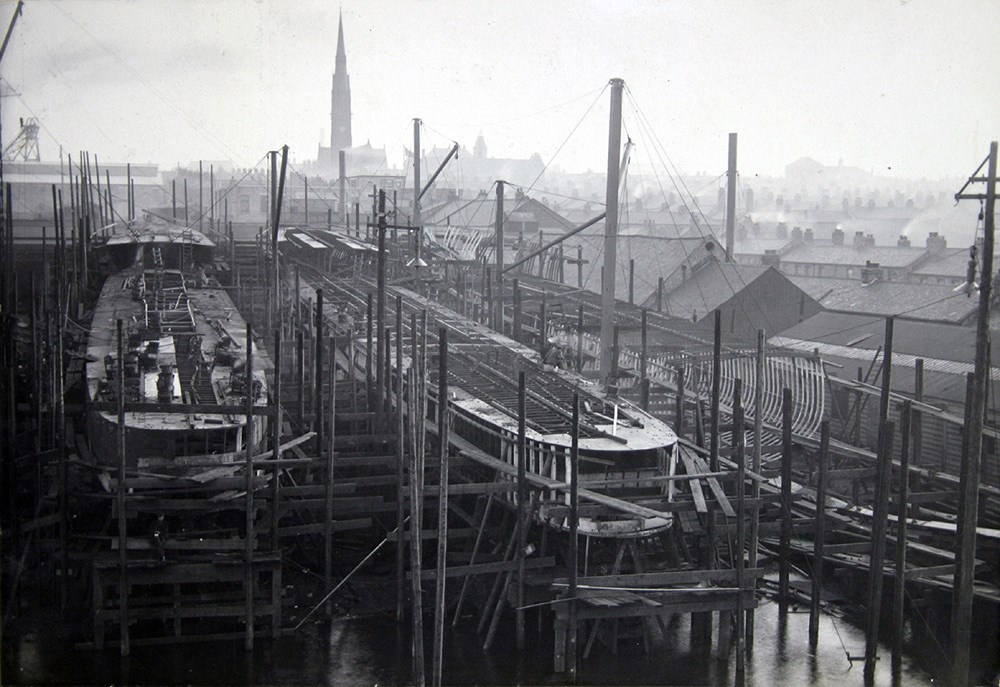 HMS Pigeon, HMS Plover and HMS Sarpedon on the stocks at the Hawthorn Leslie shipyard, Hebburn, 5 November 1915 (TWAM ref. 4471/3). The shipyard of R. & W. Hawthorn Leslie at Hebburn built many fine warships. During the First World War the firm built 2 light cruisers, 3 destroyer leaders and 25 torpedo boat destroyers. The firm also built machinery and boilers for 2 battleships, and a further 3 light cruisers. These and other warships built by Hawthorn Leslie before the War, are remembered in this set. There are remarkable images of warships under construction at Hebburn, as well as fascinating shots of the people who attended the launches. The set also contains majestic views of the ships at sea. The images are not only a testimony to the skill of those who designed and built these ships but also to the courage of those who sailed in them. (Copyright) We're happy for you to share these digital images within the spirit of The Commons. Please cite 'Tyne & Wear Archives & Museums' when reusing. Certain restrictions on high quality reproductions and commercial use of the original physical version apply though; if you're unsure please